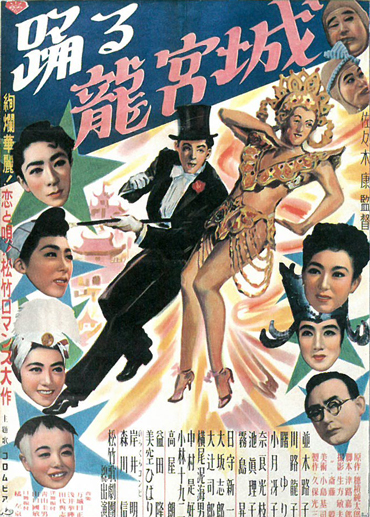 Movie poster for 1949 Japanese movie (踊る龍宮城 Odoru ryū kyūjō, literally "Dancing Dragon Palace").